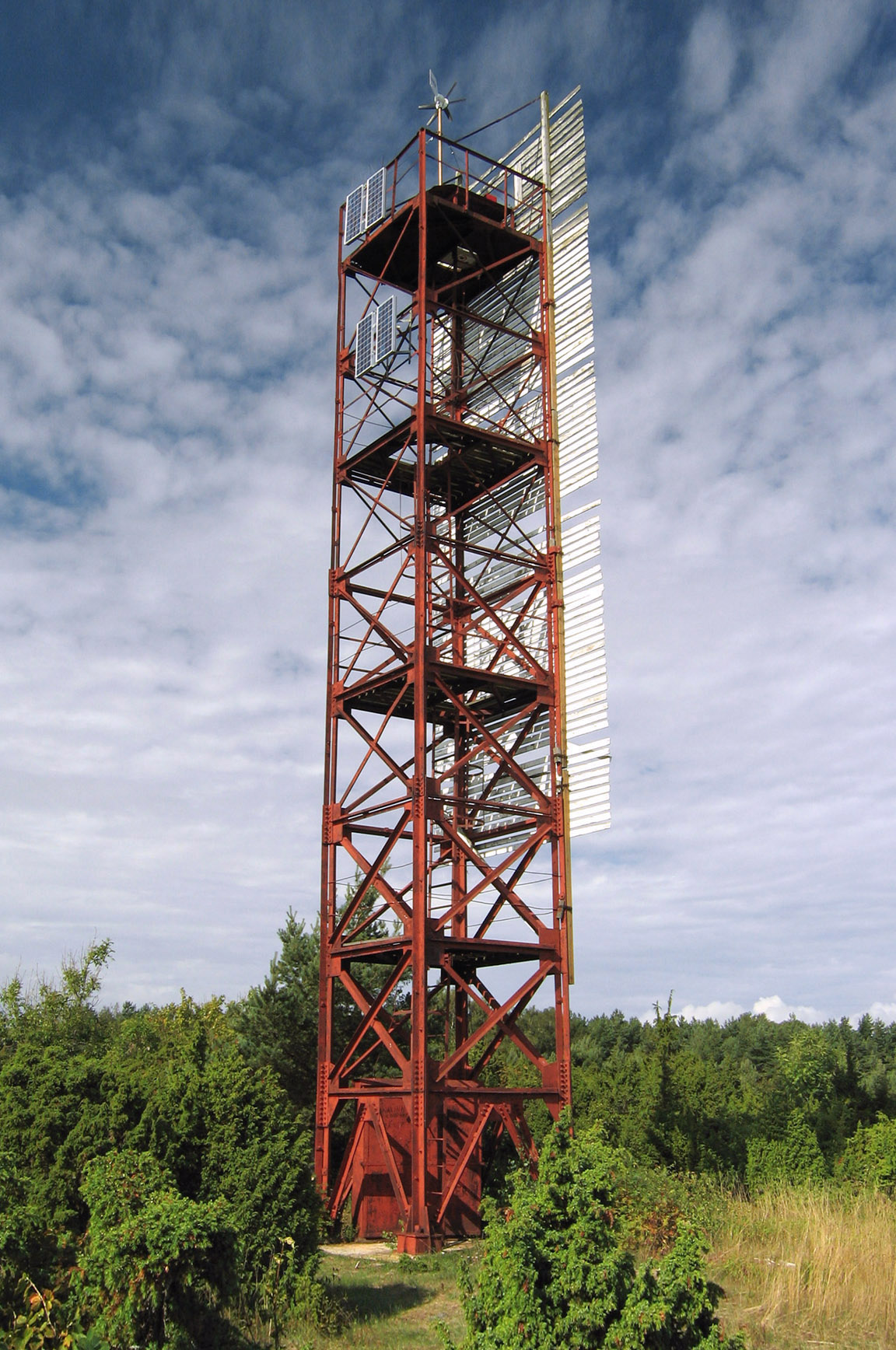 Hobulaid rear light beacon